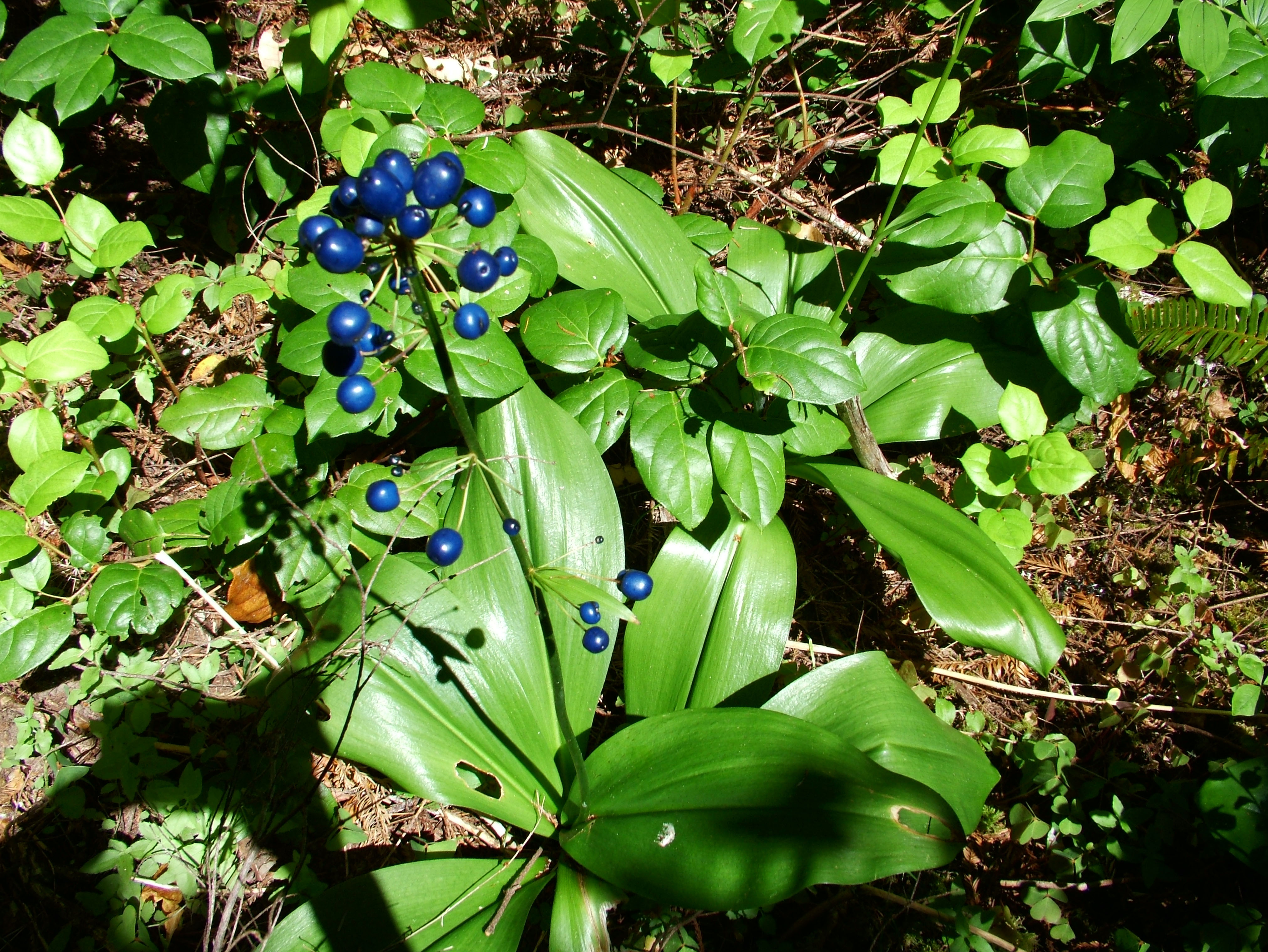 Clintonia andrewsiana at Redwood National Park, California, USA